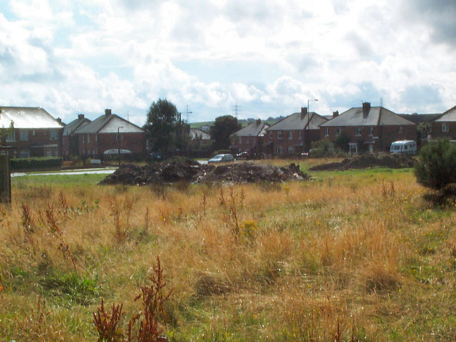 Lastingham Green. Spare land with tasteful piles of muck on the Buttershaw housing estate. Note pylons thoughtfully provided for extra depressive effect. Some explorers consider this to be the source of the 846 bus route.